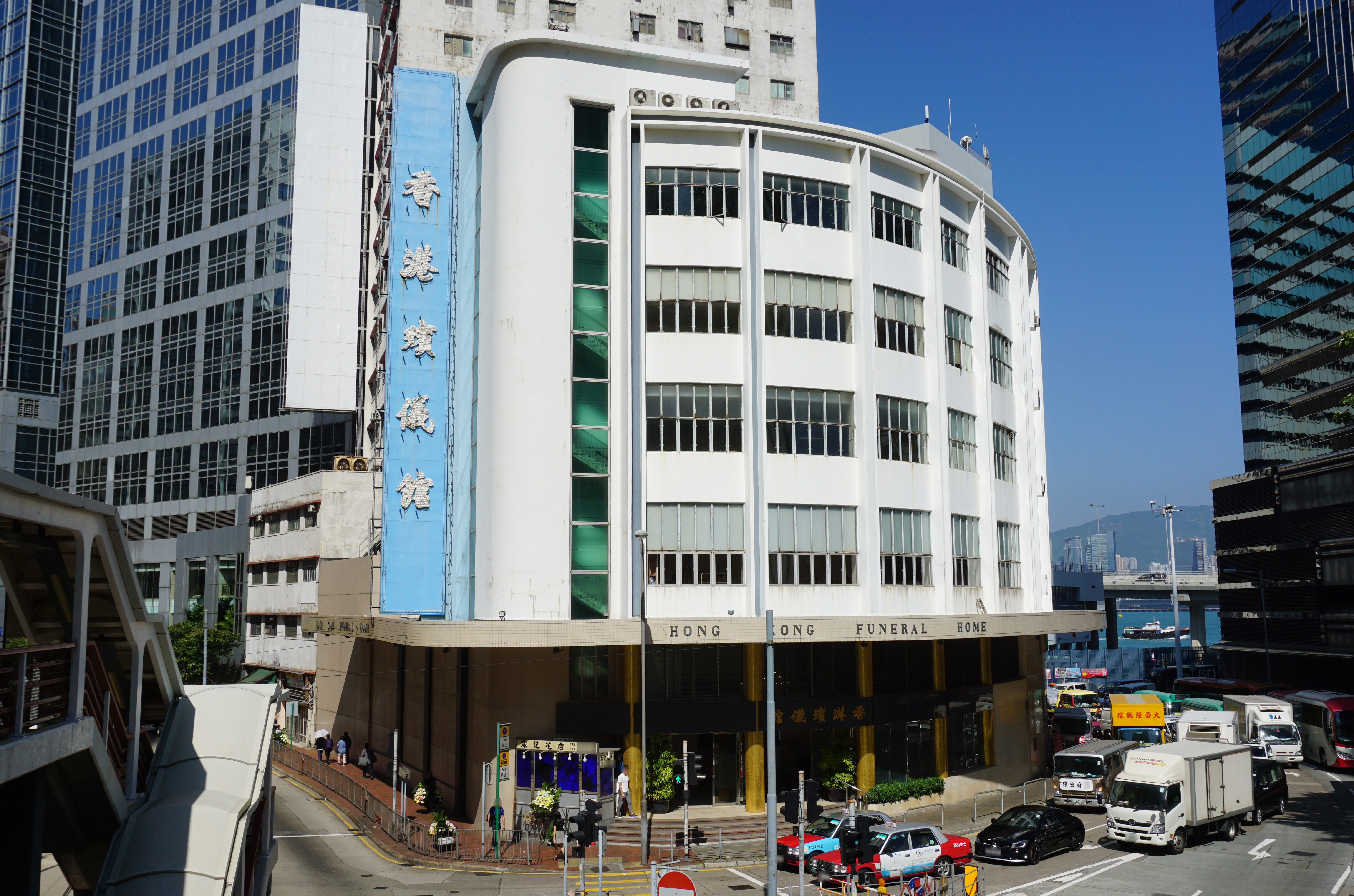 Hong Kong Funeral Home in Quarry Bay, Hong Kong.